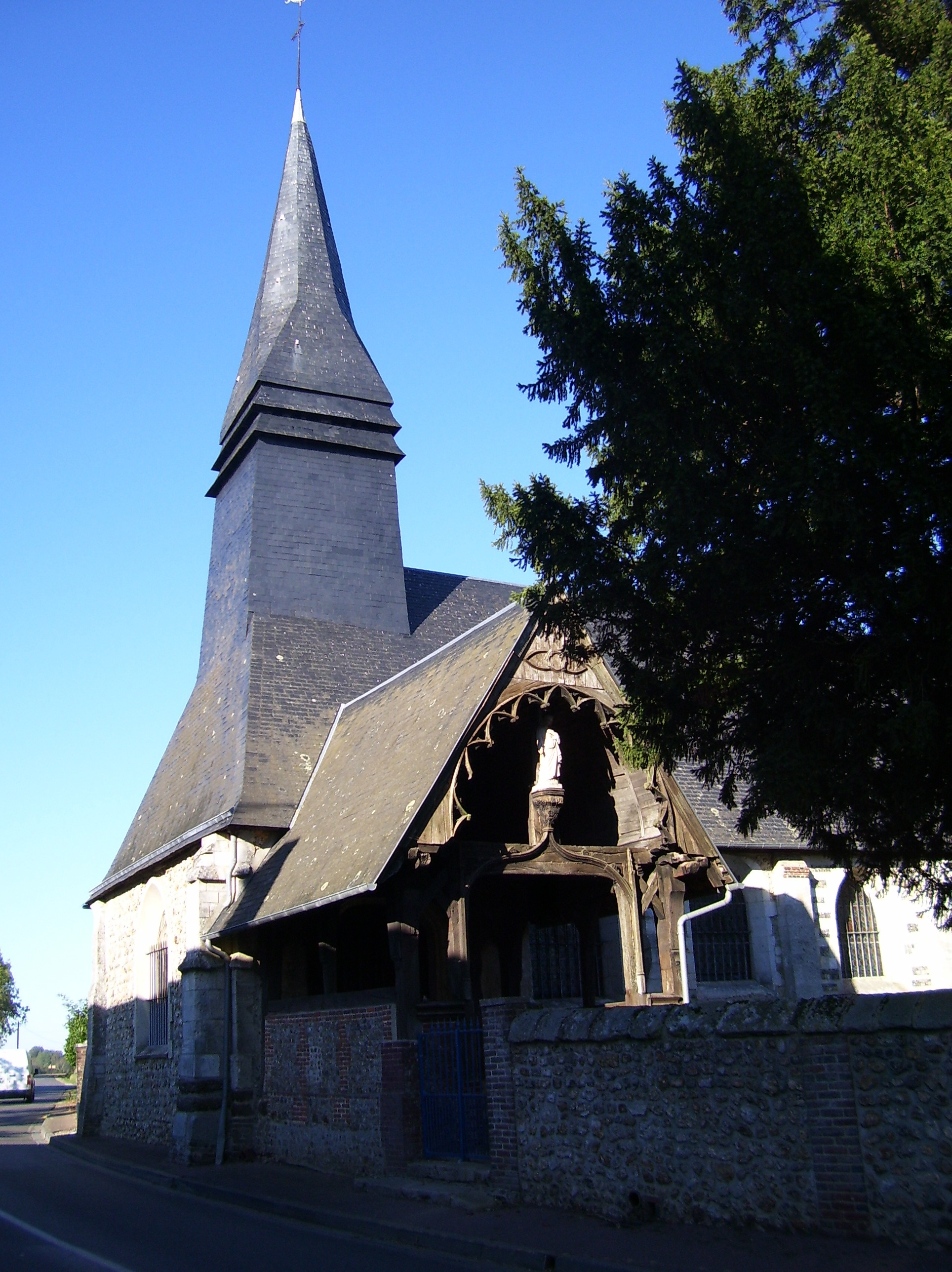 Church Notre-Dame of Boissy-Lamberville (Eure, Haute-Normandie) in France.